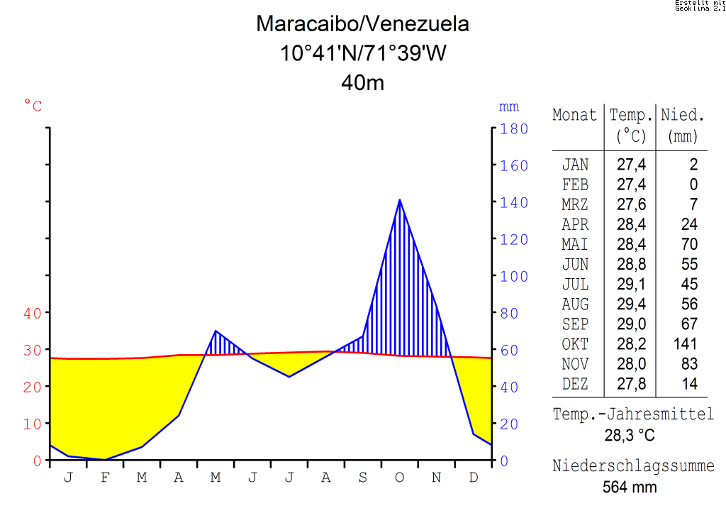 climate chart in the format by Walther and Lieth, metric, °Celsisus and millimeters, made with Geoklima 2.1 DateOctober 2006SourceSoftware: Geoklima 2.1 Website GeoklimaAuthorHedwig in WashingtonPermission (Reusing this file) Own work, attribution required (Multi-license with GFDL and Creative Commons CC-BY 2.5)